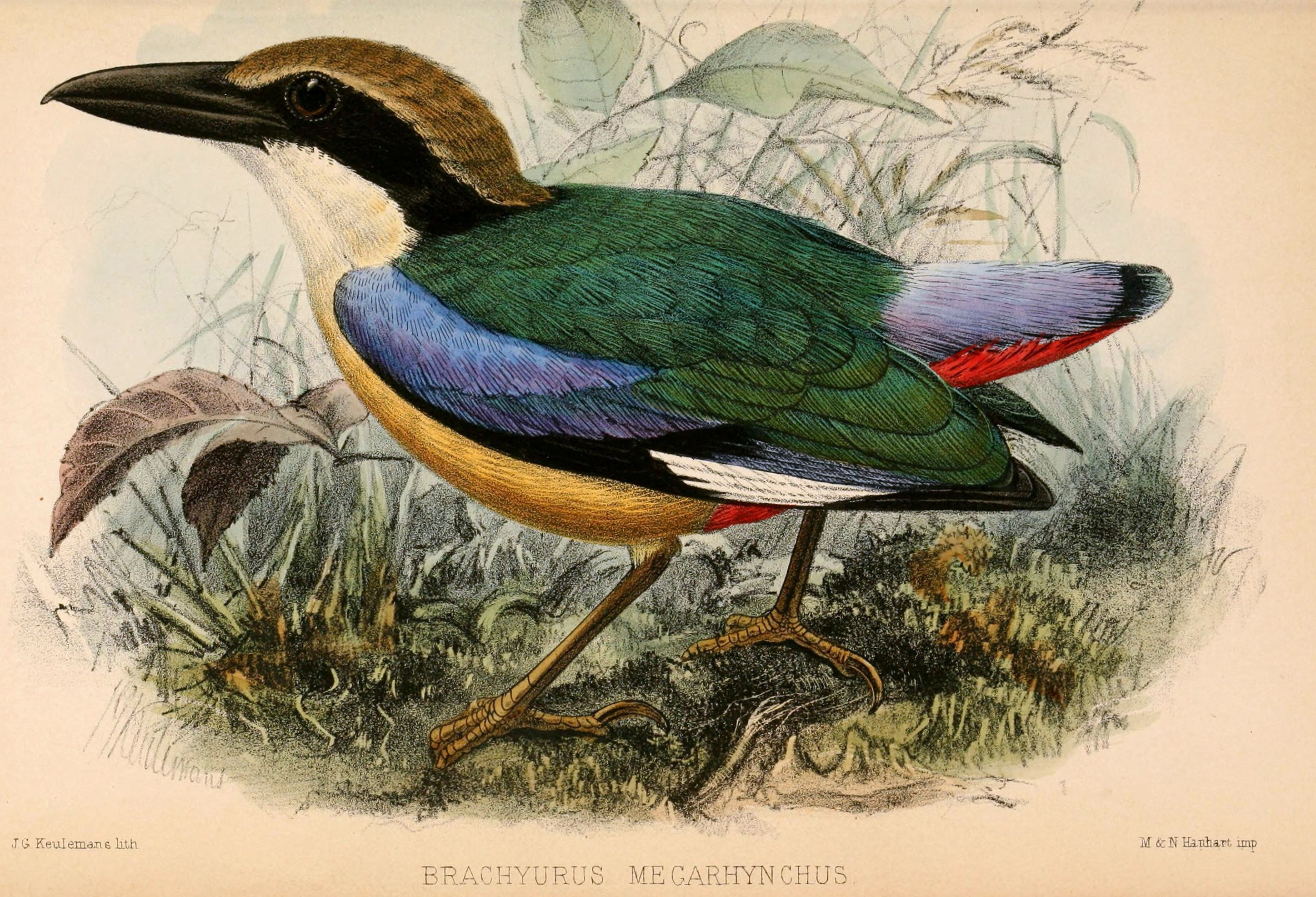 « Brachyurus megarhynchus » = Pitta megarhyncha (Mangrove Pitta)